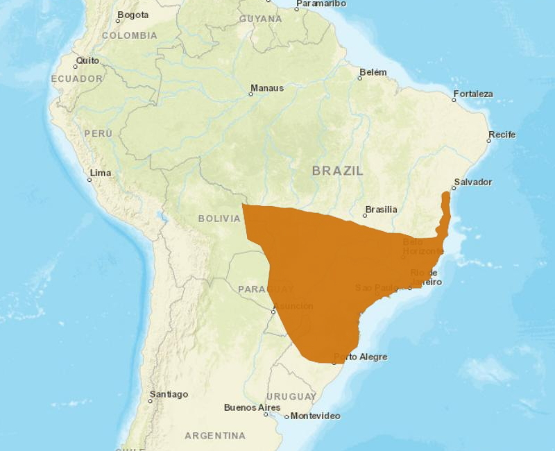 Distribution of Southern Tiger Cat